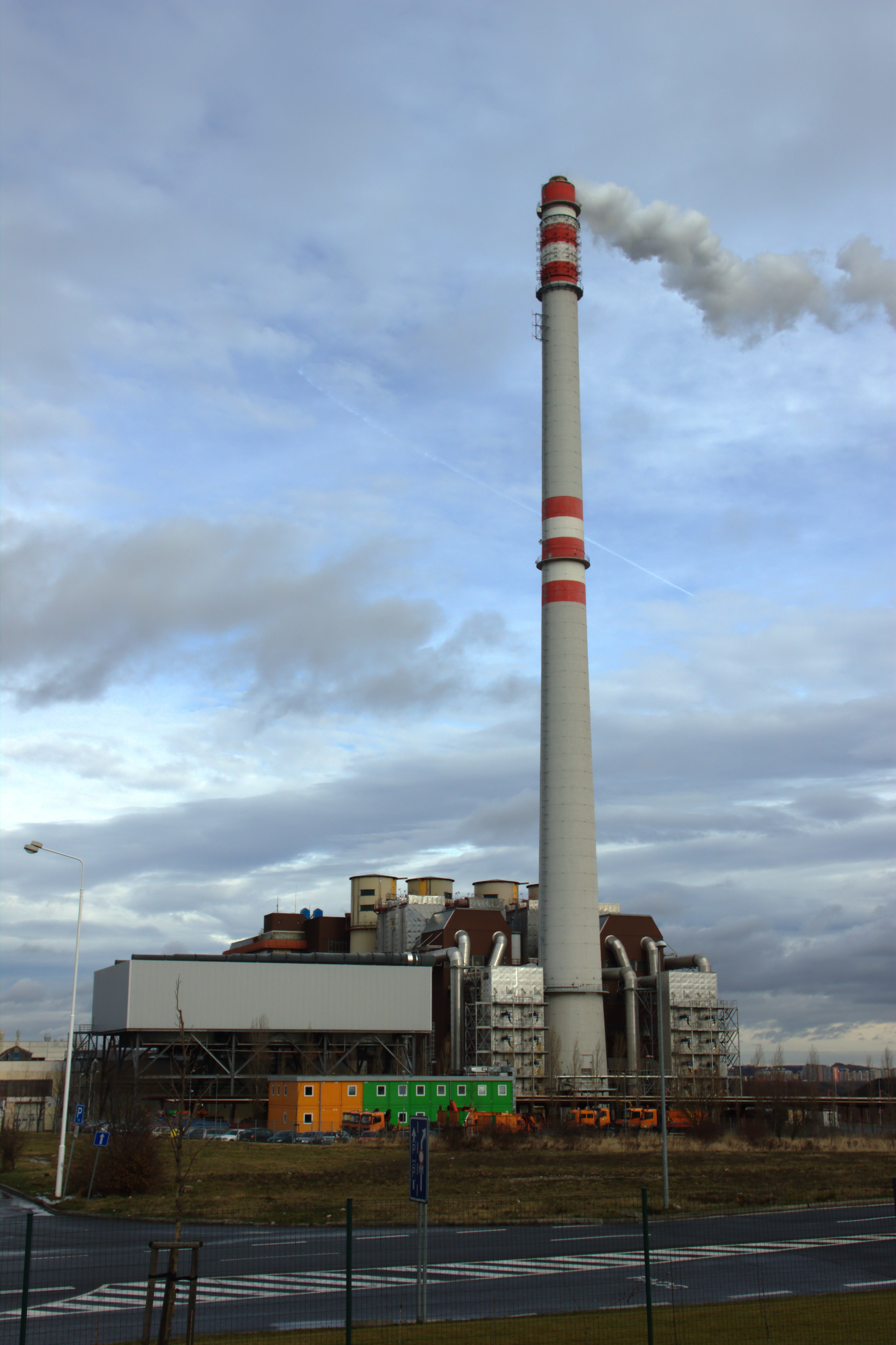 Malešice incineration plant, Prague, CZ